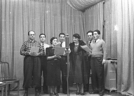 Members of the Basque national choir, Eresoinka, recording four songs in the Basque language in Paris on February 3, 1938. Soprano Miren Orrantia, contralto Pepita Embil (tall woman third from right, future mother of Plácido Domingo), tenors Txomin Sagarzazu and Eugenio Berasategui, baritone Jesus Elosegui, and bass Santi Insausti (Karmele Goñi).